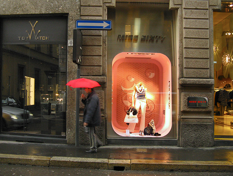 MISS SIXTY, 米蘭拿破崙大街, Via Monte Napoleone, Milan